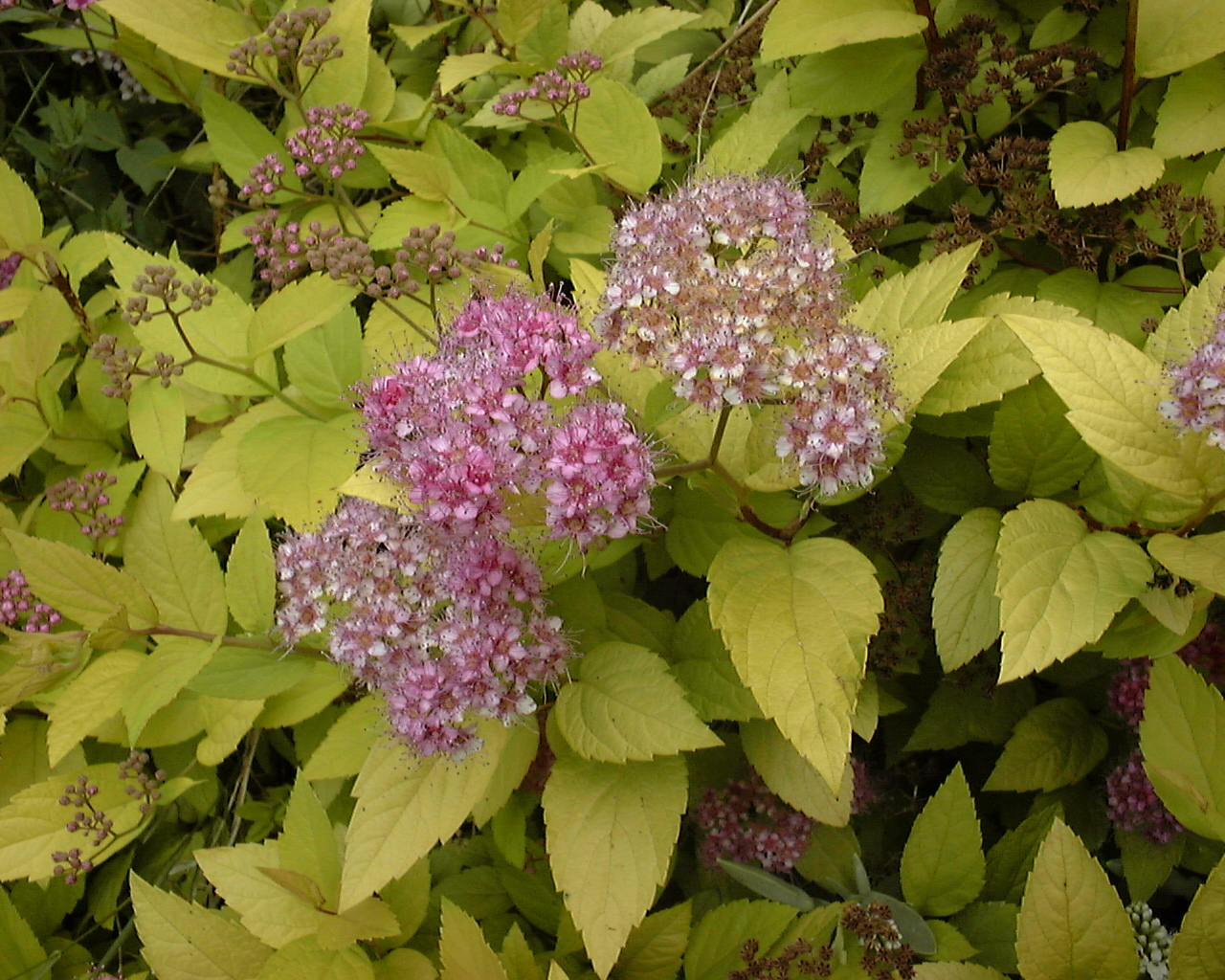 The leaves and flowers of Spiraea japonica, a plant of the Spiraea genus. The picture was taken at approximately 13:30 UTC under conditions of thin cloud. The equipment used was a Toshiba PDR-M1 digital camera in Auto and Macro modes.